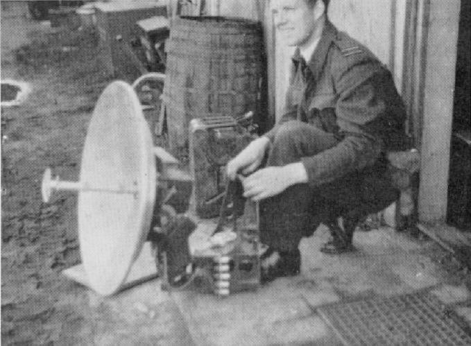 FuG 240 Airborne radar "Berlin" A Royal Air Force Flight lieutenant with a captured, rare FuG-240 "Berlin" Radar. Dish antenna inside stremalined nose cover; 30 to 50 issued to service units, mostly on the Ju88G-6. Berlin used a wavelength of 10cm and was based on captured examples of the British cavity magnetron.